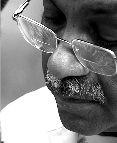 Photo of Shaji Karun, a film director from India.